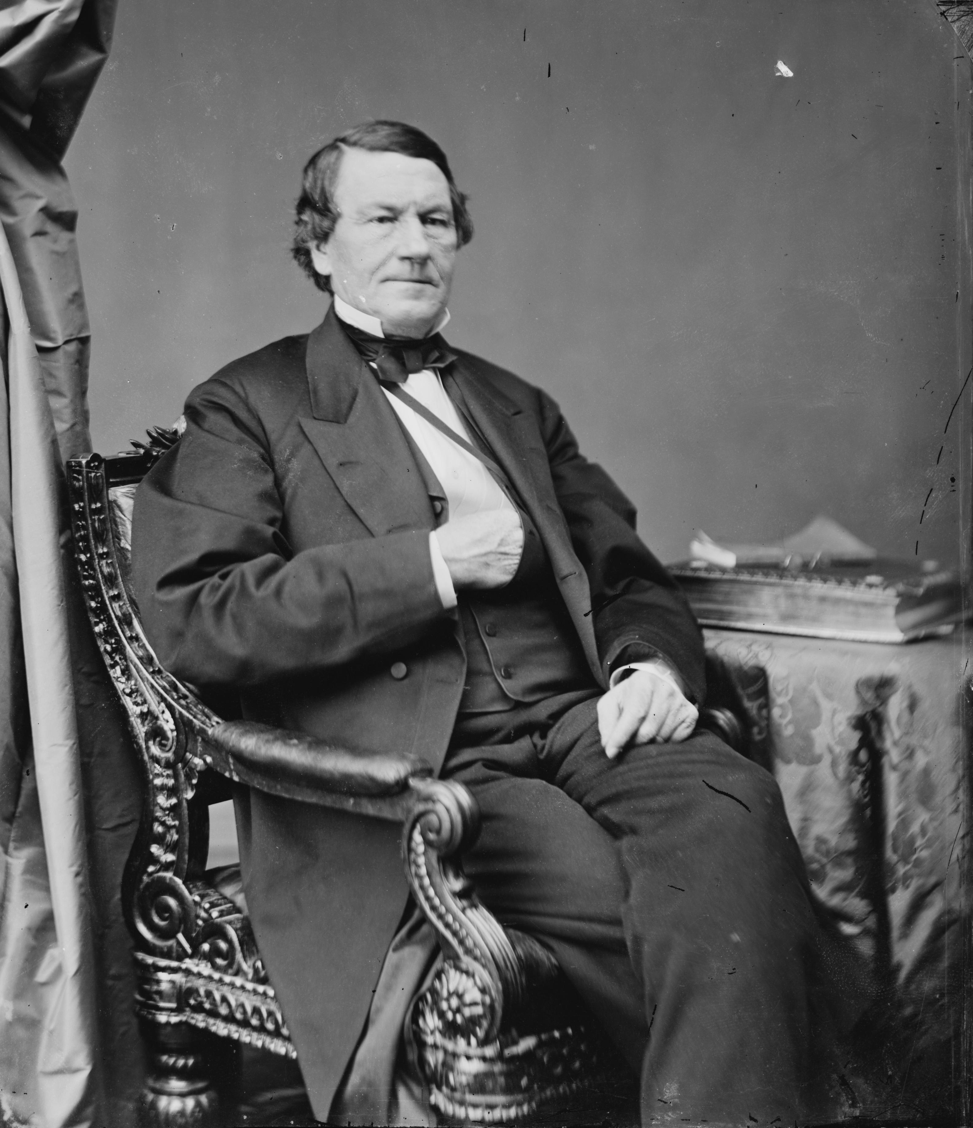 John Covode. Library of Congress description: "Hon. John Covode of PA"